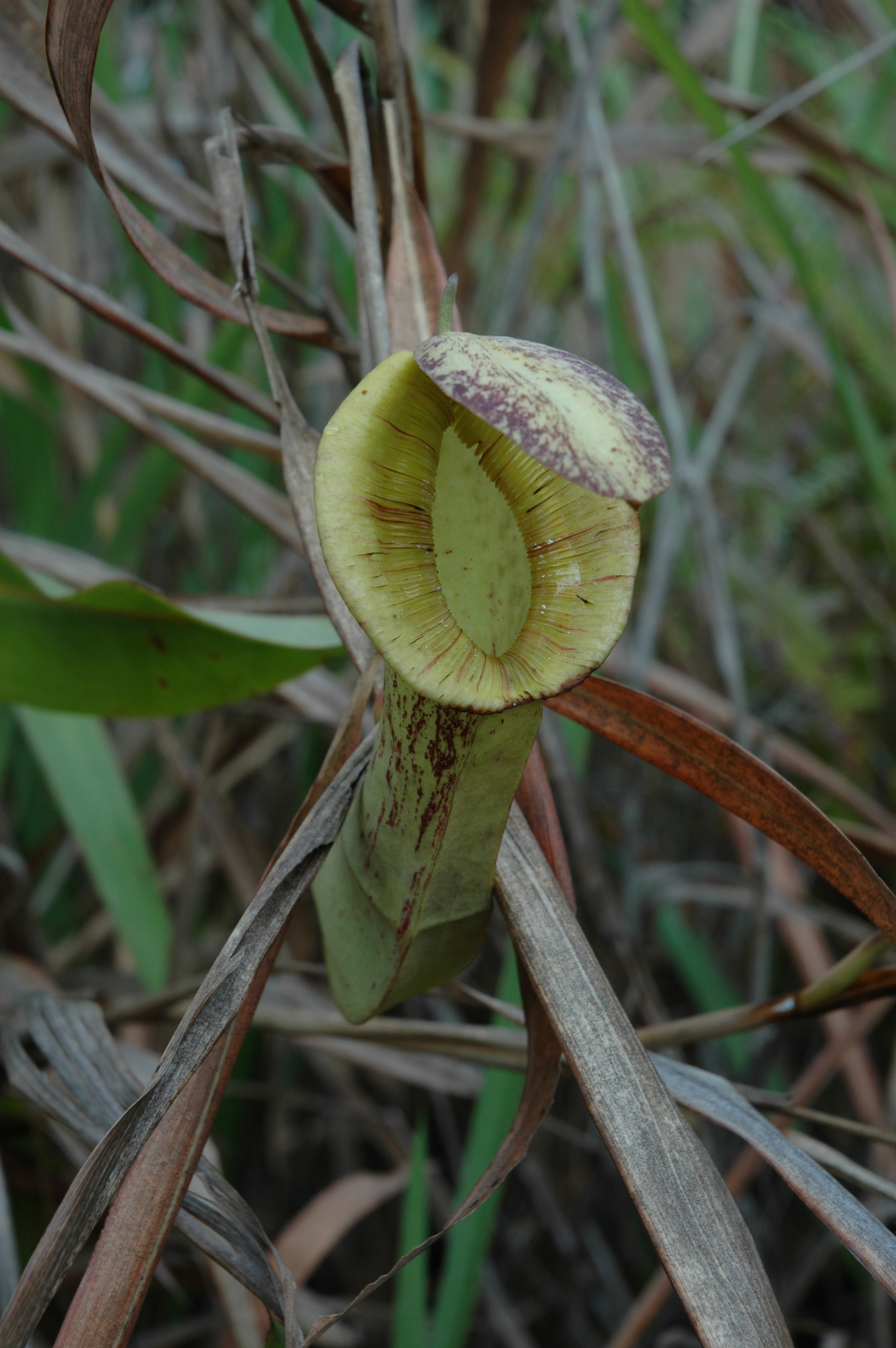 Nepenthes mirabilis var. echinostoma Miri roadside by Jeremiah Harris